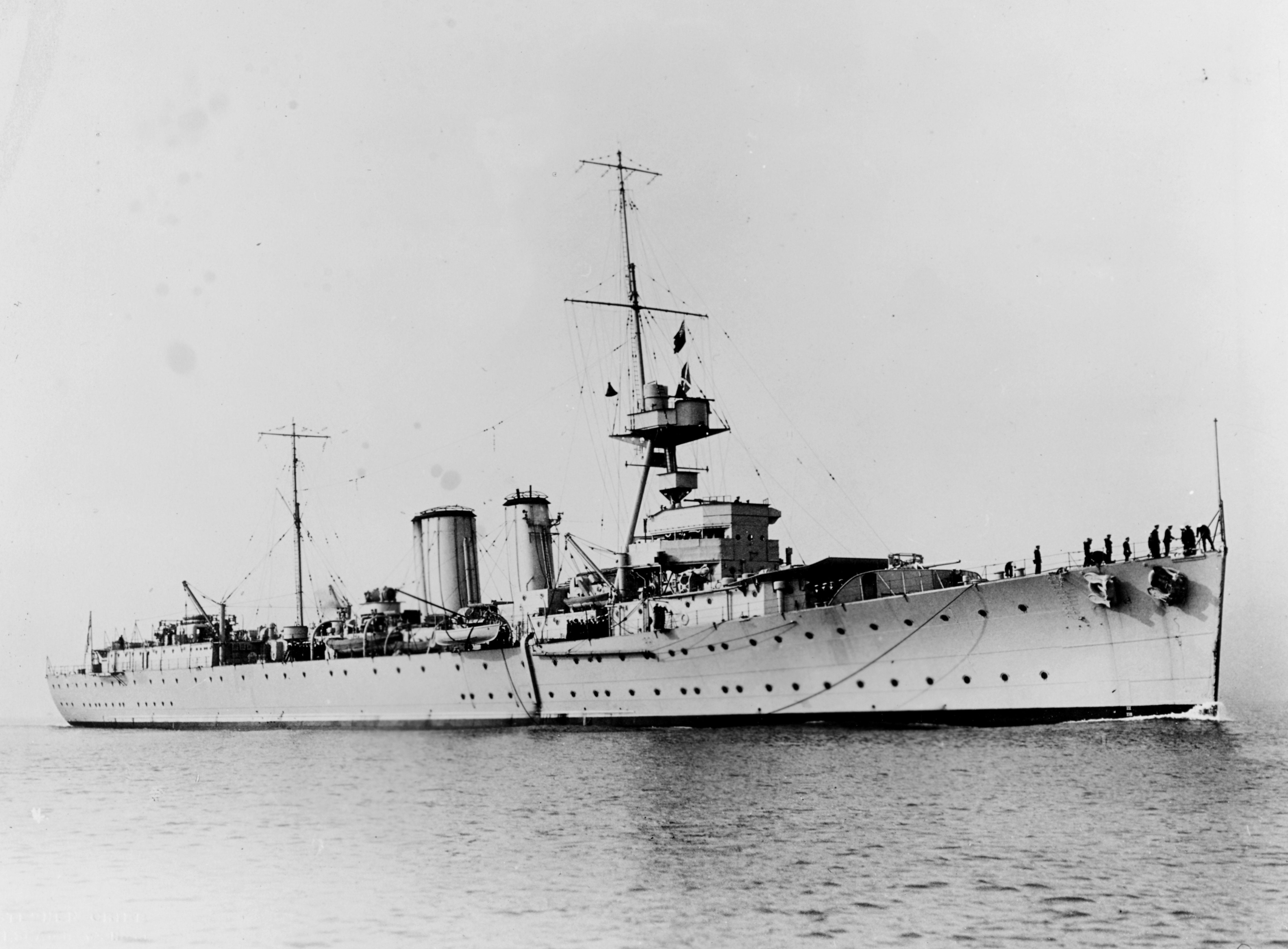 The Royal Navy minelayer HMS Adventure (M23).